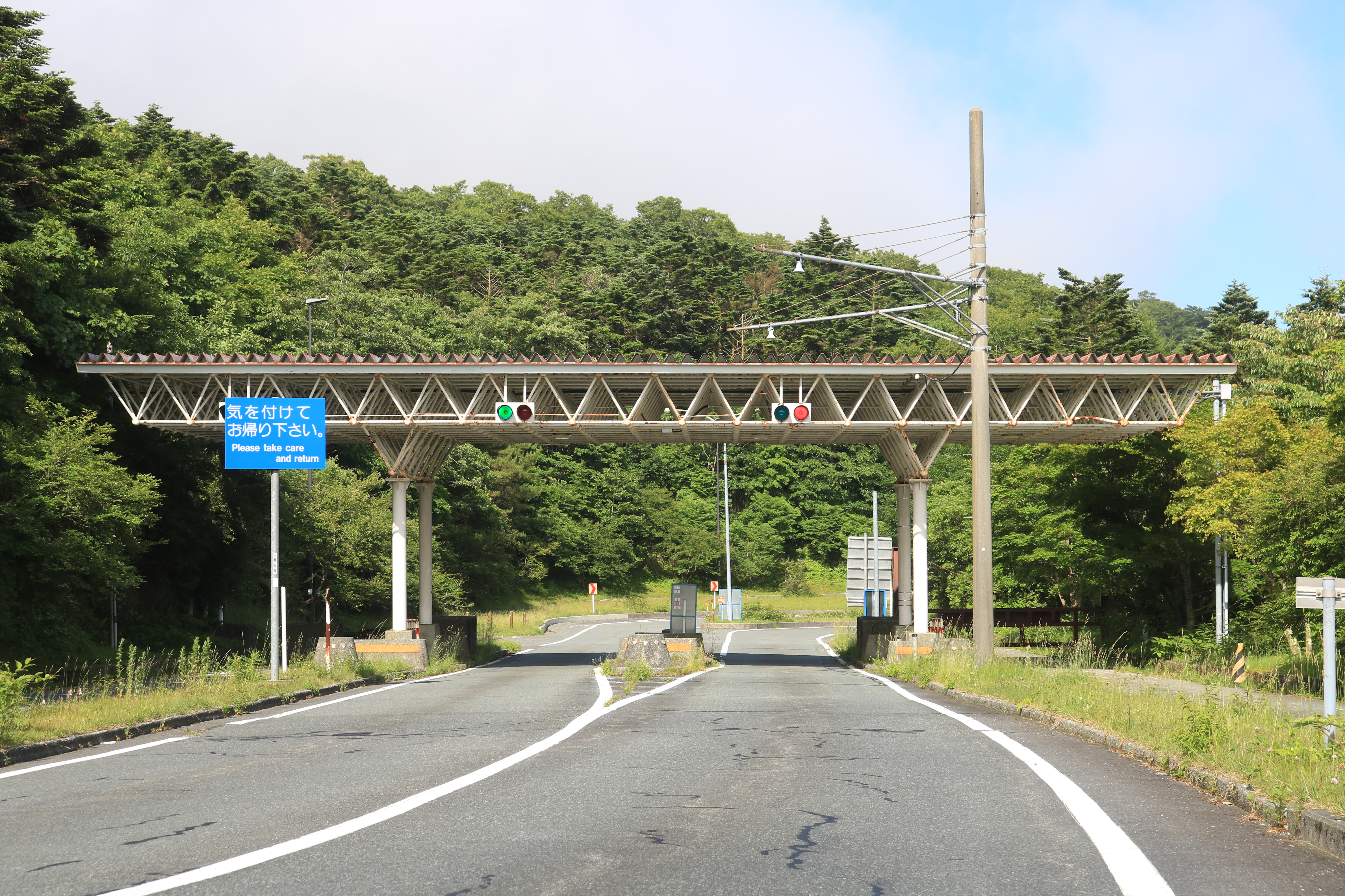 Shizuoka Prefectural Road Route 152 (Gate) in Obuchi, Fuji, Shizuoka Prefecture, Japan.